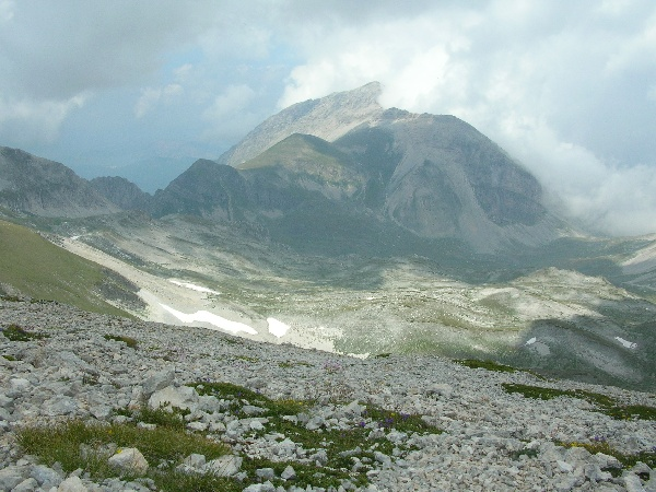 Campo Pericoli, Italy, seen from the Pizzo Cefalone Picture taken by user Idéfix , july 2005